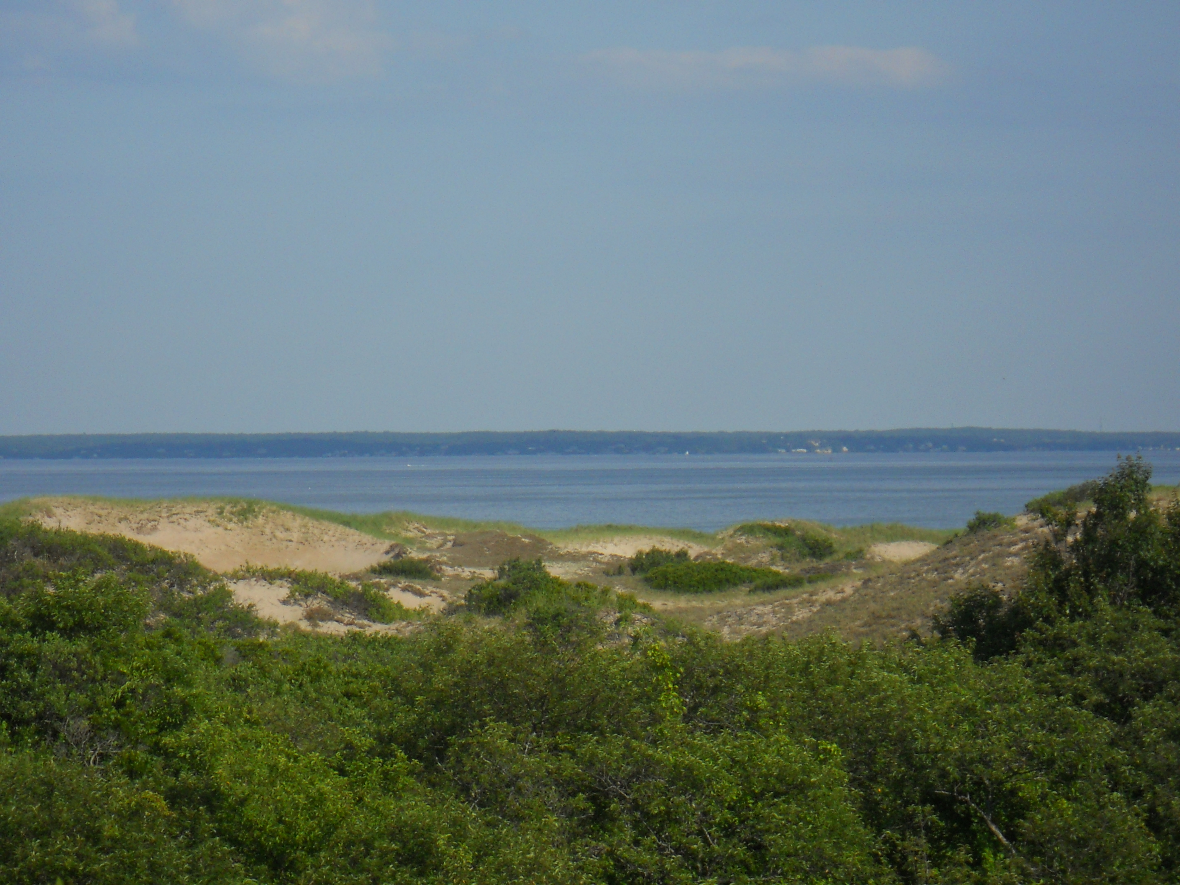 View from the overlook at the top of the dunes trail portion of Hellcat Swamp Trail